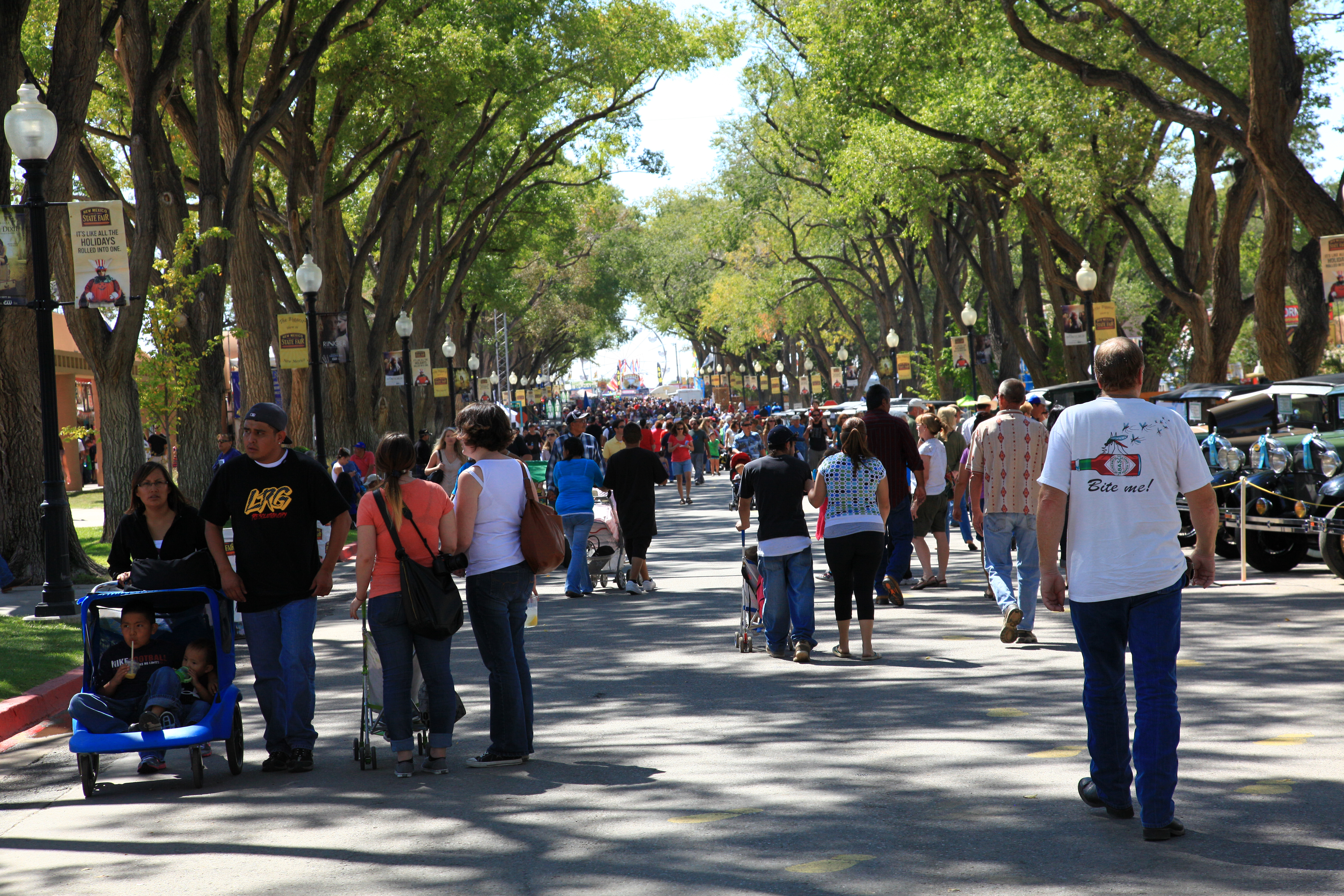 Expo New Mexico fairgrounds during the 2011 New Mexico State Fair, Albuquerque, NM, USA.